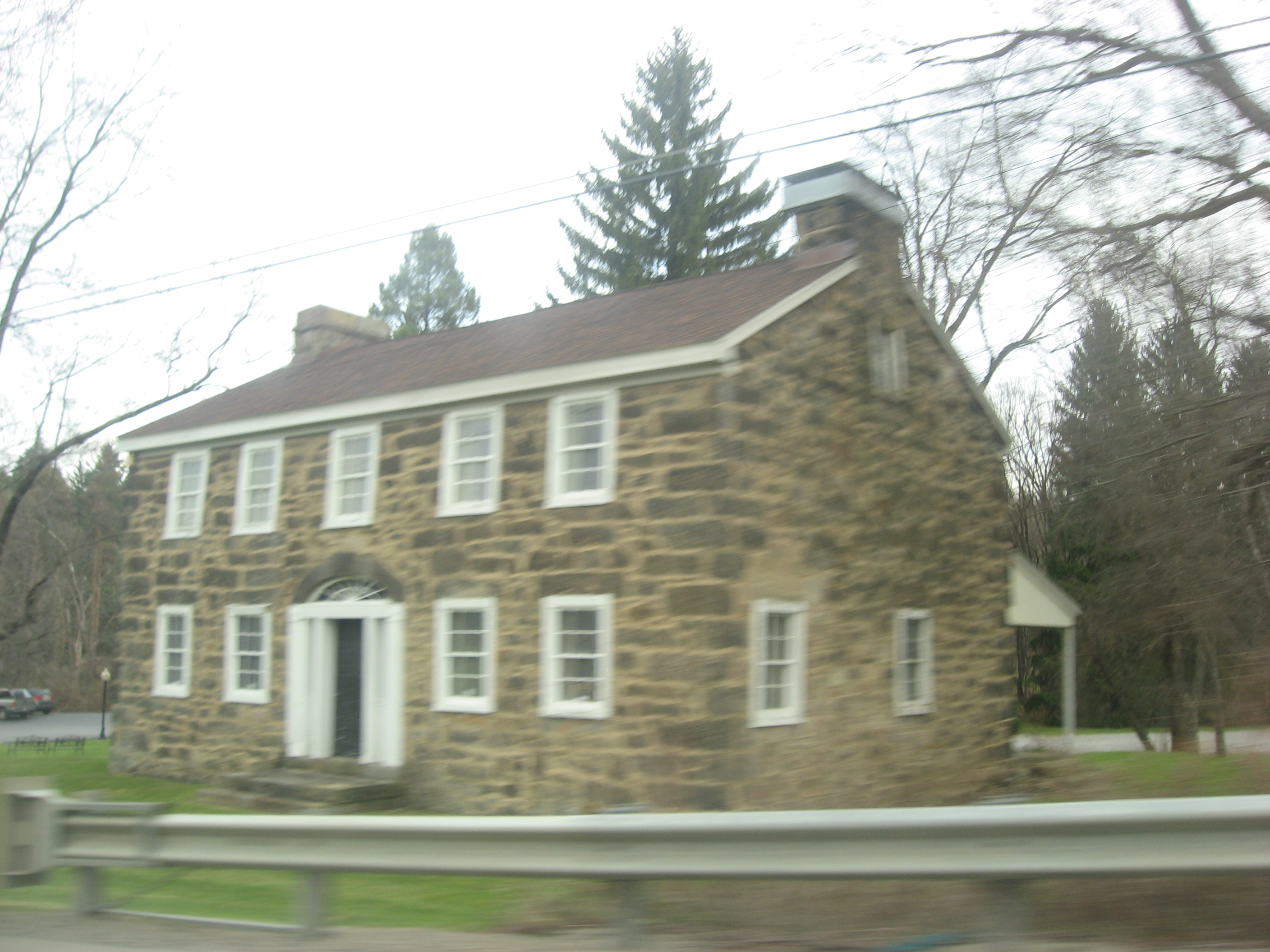 Front of Johnston's Tavern, located at 1553 Perry Highway south of Mercer in Springfield Township, Mercer County, Pennsylvania, United States. Built in 1831, it is listed on the National Register of Historic Places.